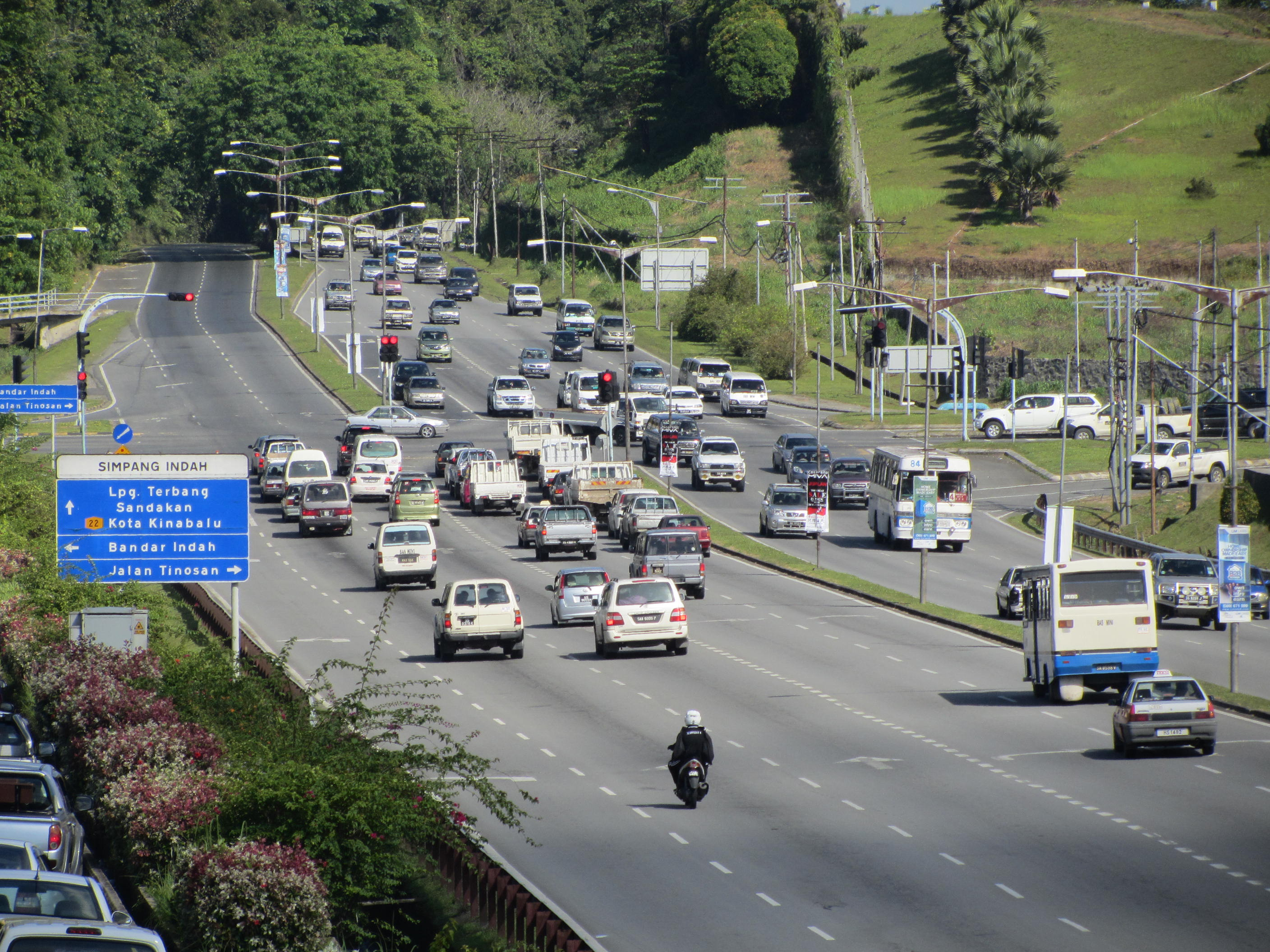 As I crossed the overhead bridge to head over to Bandar Indah, I got to see a nice view over North Road and the Indah Intersection. Traffic wasn't too heavy for a working day, but the angle is certainly interesting. The Indah Intersection is surrounded with shops on three sides, and a private hillside on one side. The lanes on the left is for west bound traffic and the other lanes are east bound, which leads to the city centre.